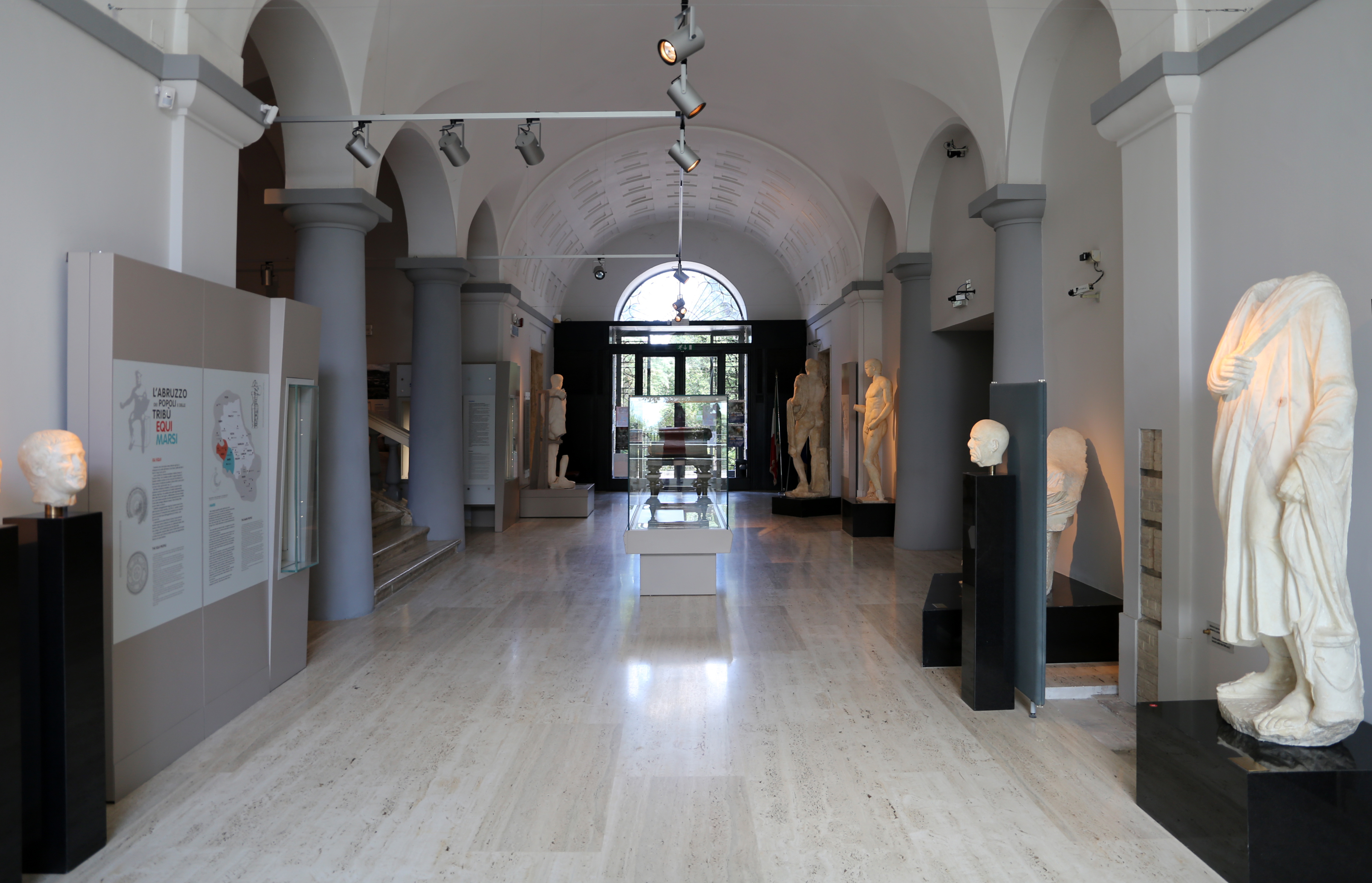 Museo archeologico nazionale d'Abruzzo